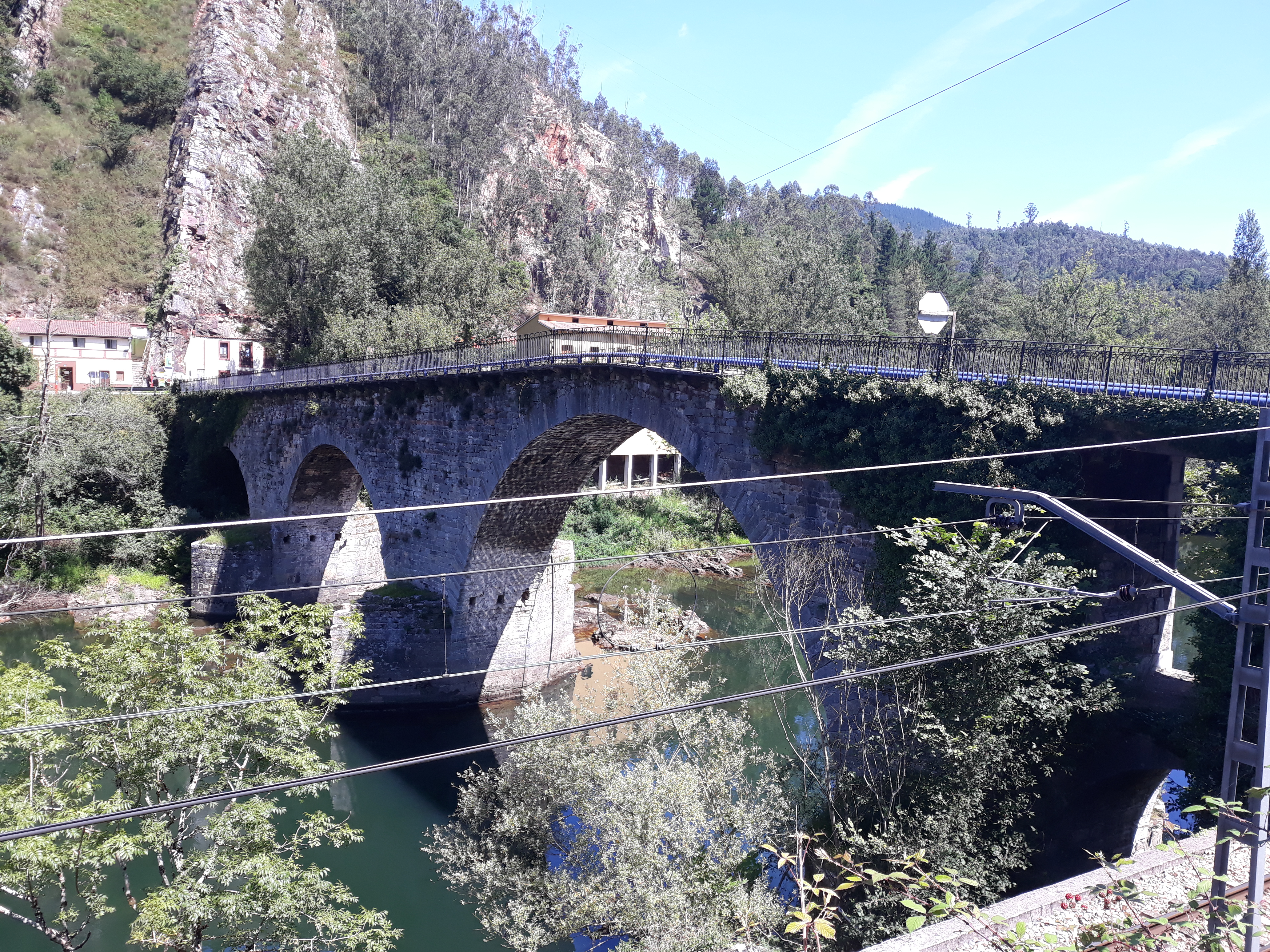 Peñaflor Bridge over the Nalón River. Primitive Way of Saint James at Peñaflor, Grado, Asturias, Spain.